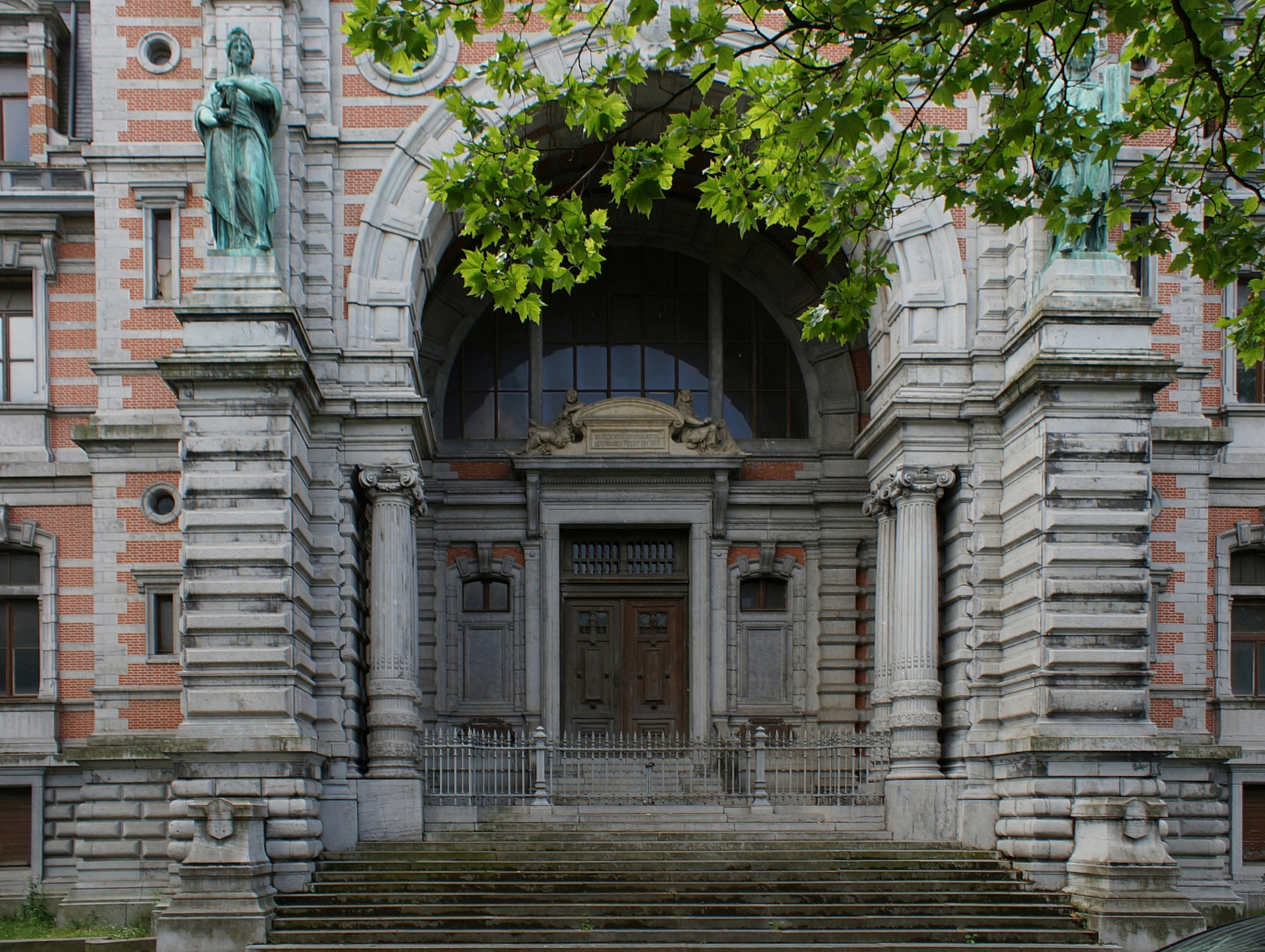 Work by the architects Louis Baeckelmans and Frans Baeckelmans (1871-1874). Main entrance.